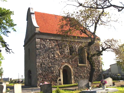 Chapel in Krobia, Poland